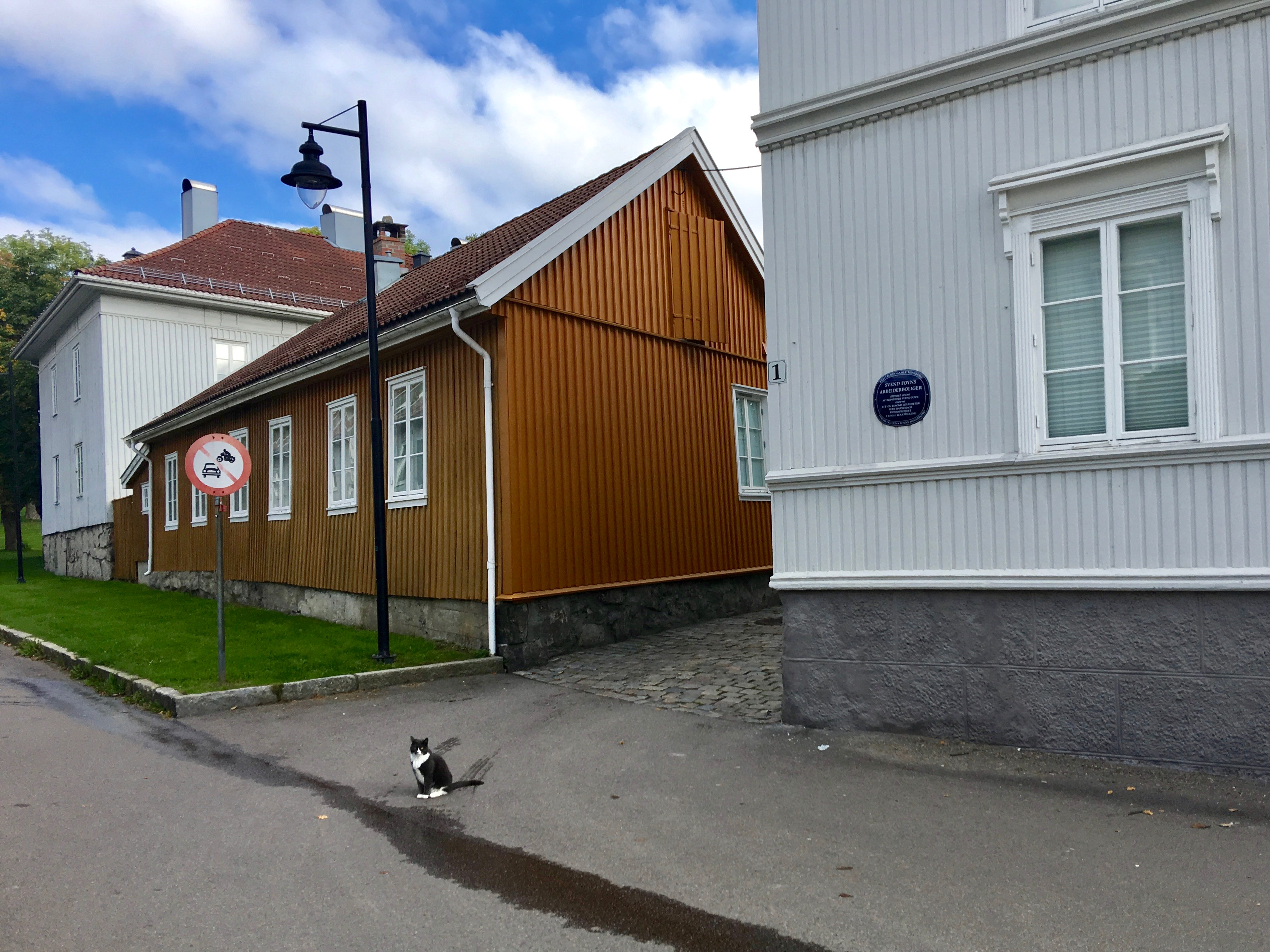 "Svend Foyns arbeiderboliger" worker's house in Tønsberg, Norway. Built 1857–65.